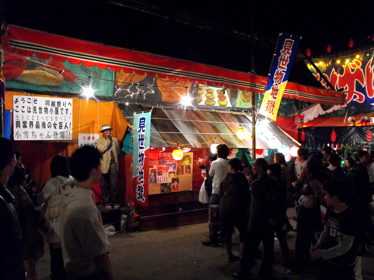 Sideshow in Kawagoe-festival, Saitama, Japan.